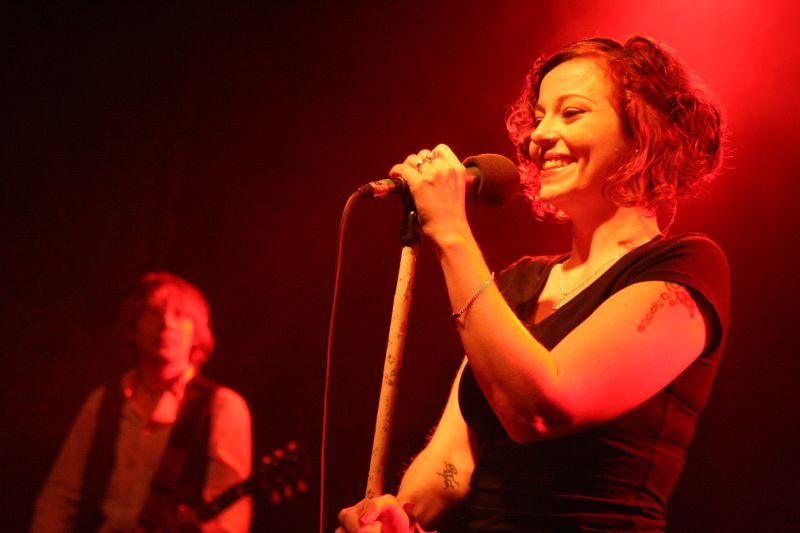 The Gathering band performing in Weert in the Netherlands, 2006